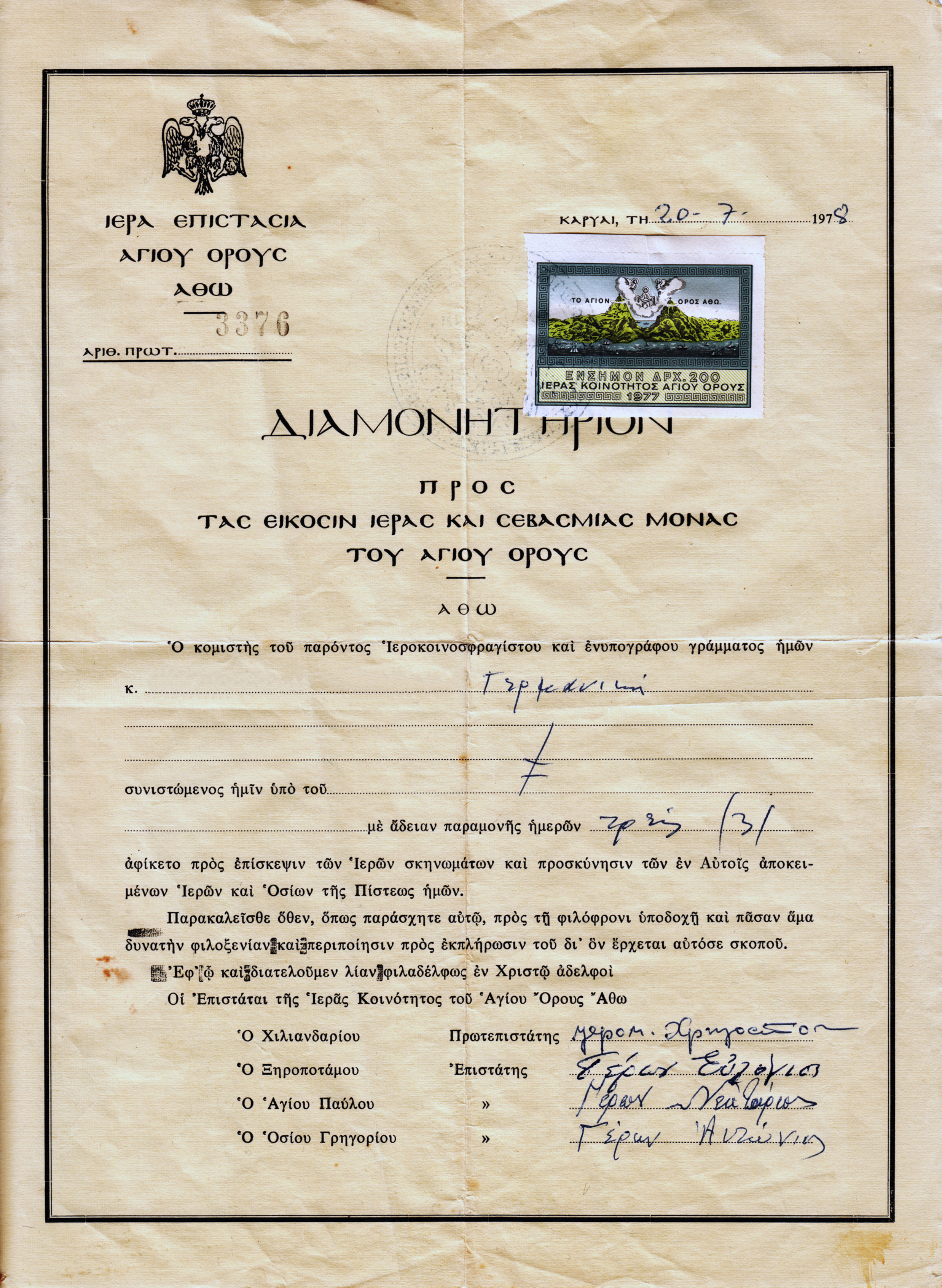 Diamonētērion 1978